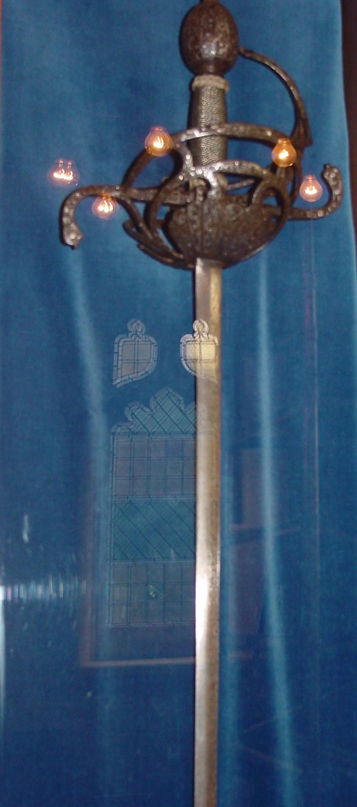 Rapier of Sir William Harris 1584 - 1616. High Sheriff of Essex 1598 Located in All Saint's Church in Creeksea, Essex. Formerly located in Creeksea Place manor.